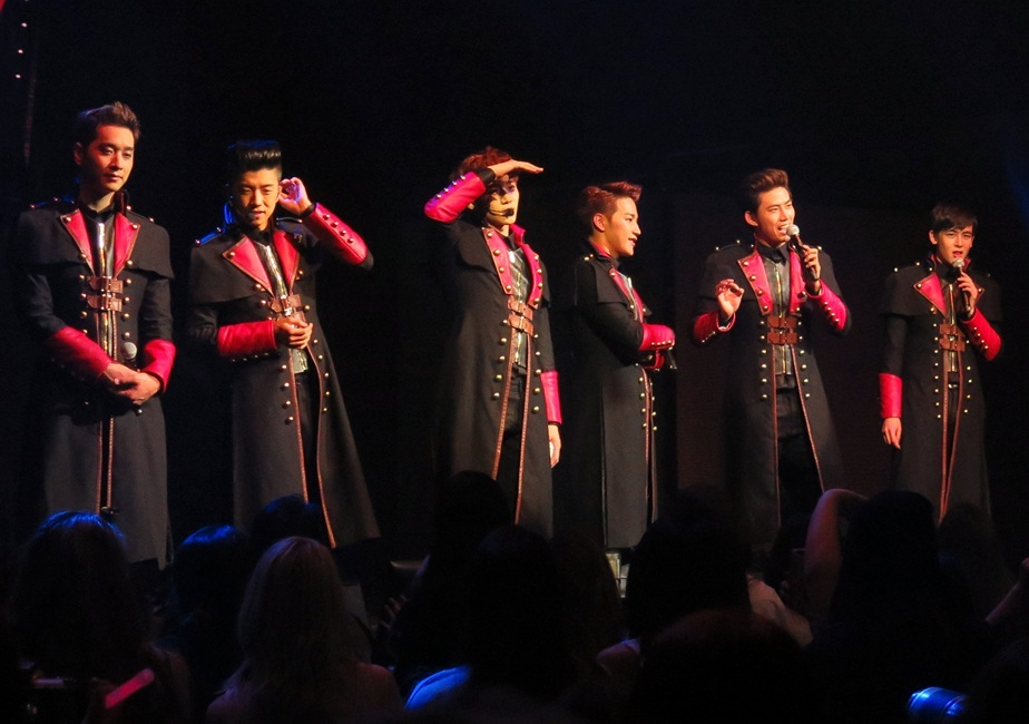 2PM Go Crazy World Tour, Rosemont Theatre, Chicago (Rosemont), Illinois, U.S.A.